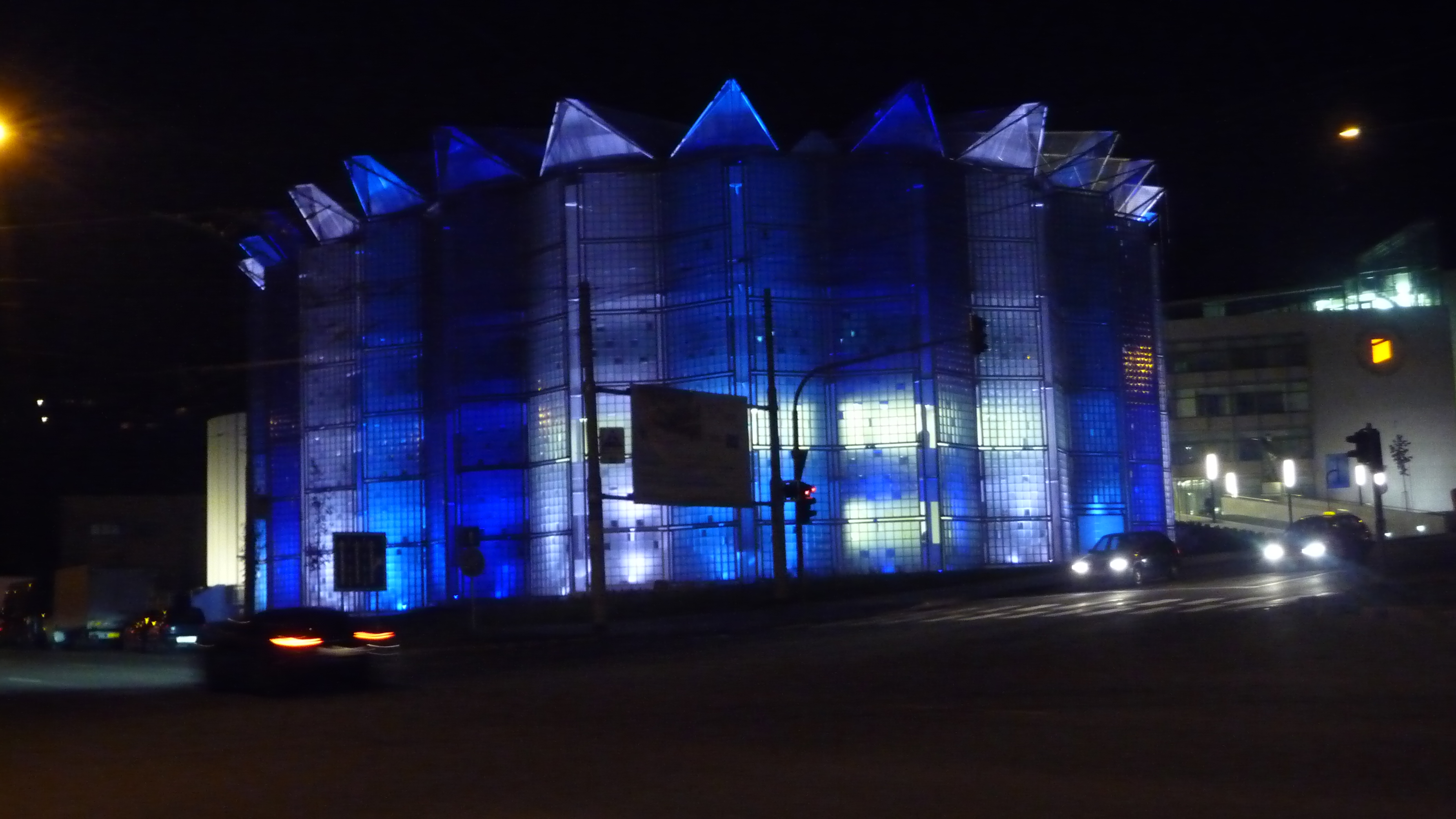 Congress centre Zlín